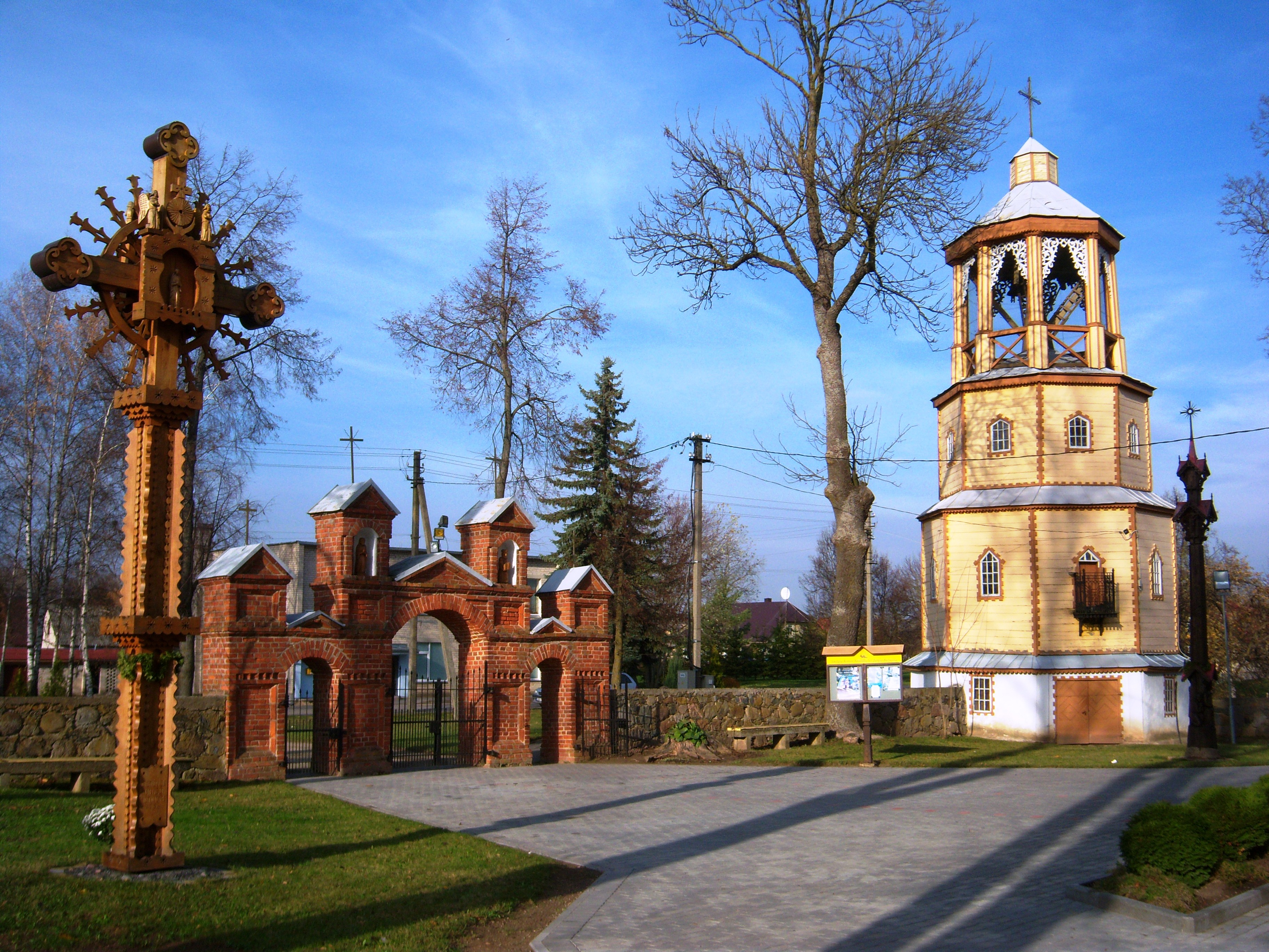 Roman Catholic Church, churchyard, Smilgiai, Panevėžys District, Lithuania